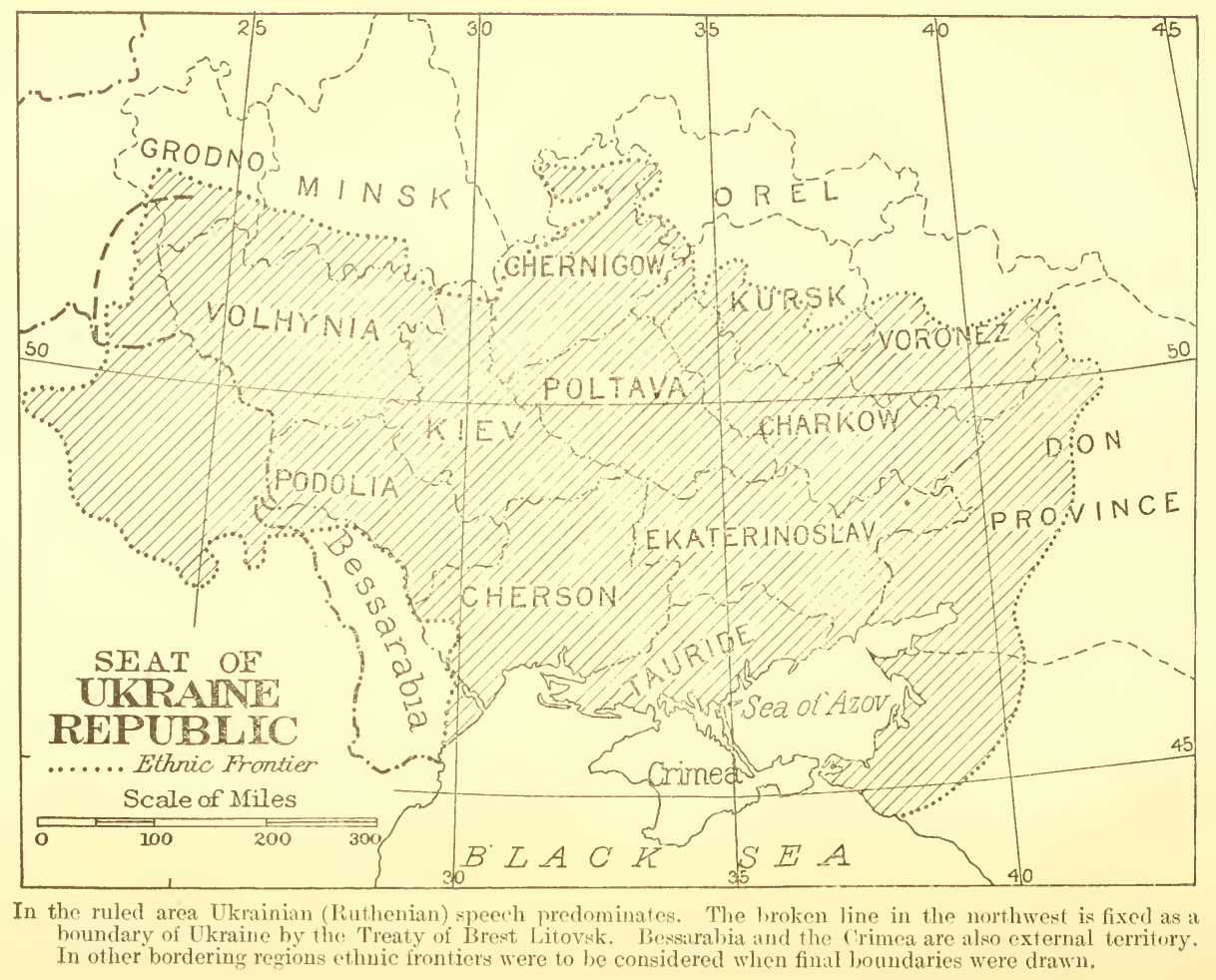 The map of Ukrainian People's Republic by the Treaty of Brest Litovsk, 1918. The map also depicts ethnic frontier of Ukrainians.